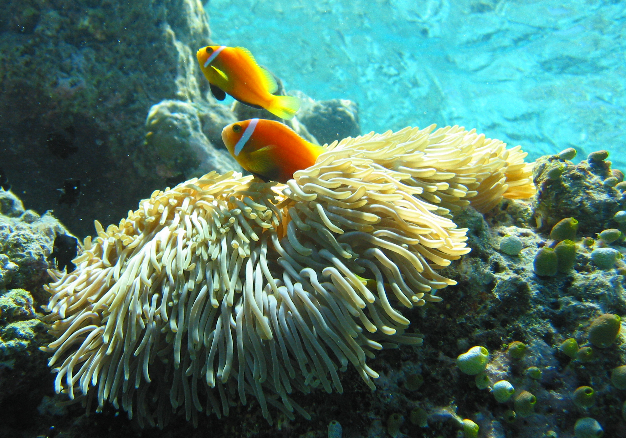 Maldive anemonefish (Amphiprion nigripes) in a sea anemone (Heteractis magnifica) in Fihalhohi, Maldives.. They are sometimes called Black-footed clownfish due to their black pelvic and anal fins. On the right side rock there are a couple of Sea squirts visible.